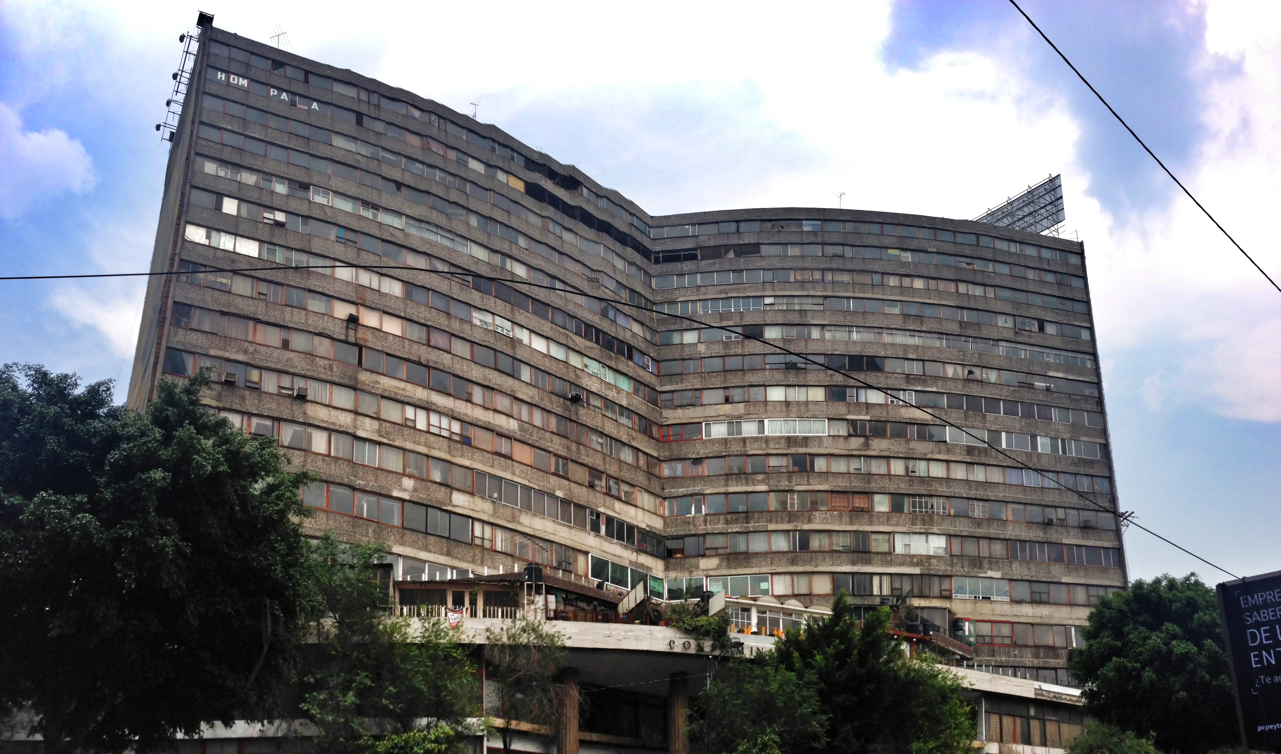 Insurgentes 300 panorama, colonia Roma Norte, Mexico City